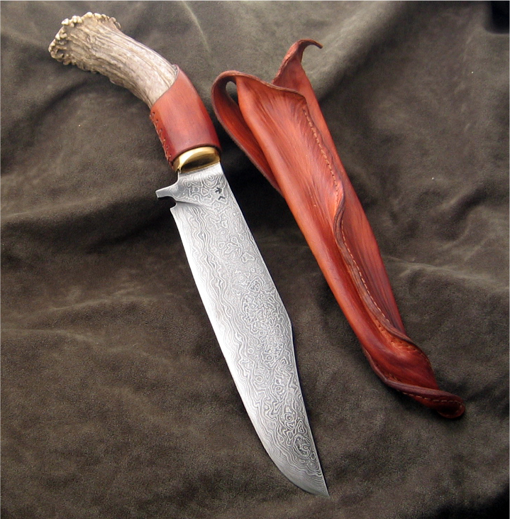 Damascus Steel, Stag handled Bowie by TC Blades Removed from the following pages: Damascus steel --OrphanBot (talk) 08:26, 20 April 2008 (UTC)